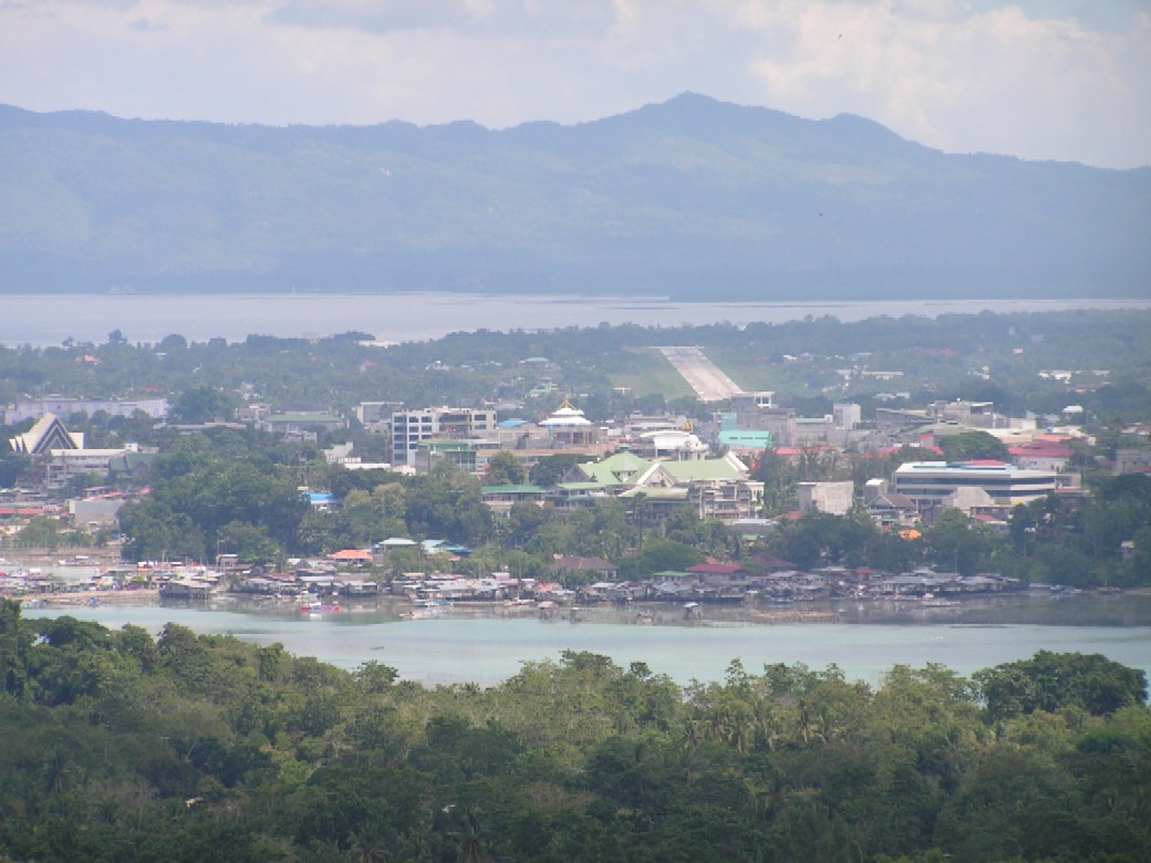 View of Tagbilaran, Bohol, the Philippines.